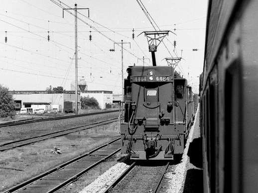 A Penn Central PRR E44 on the Northeast Corridor in 1972.